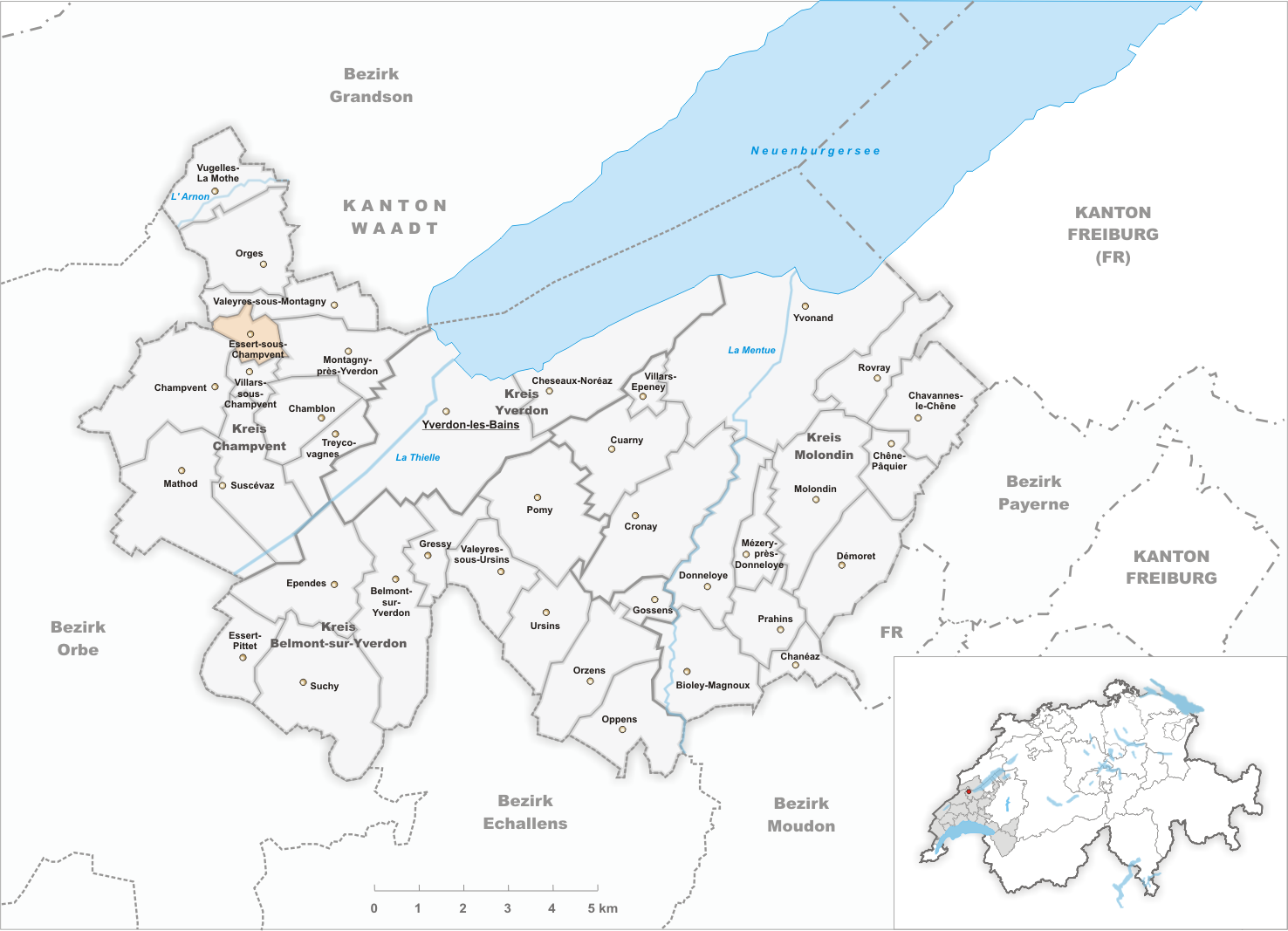 Municipality Essert-sous-Champvent